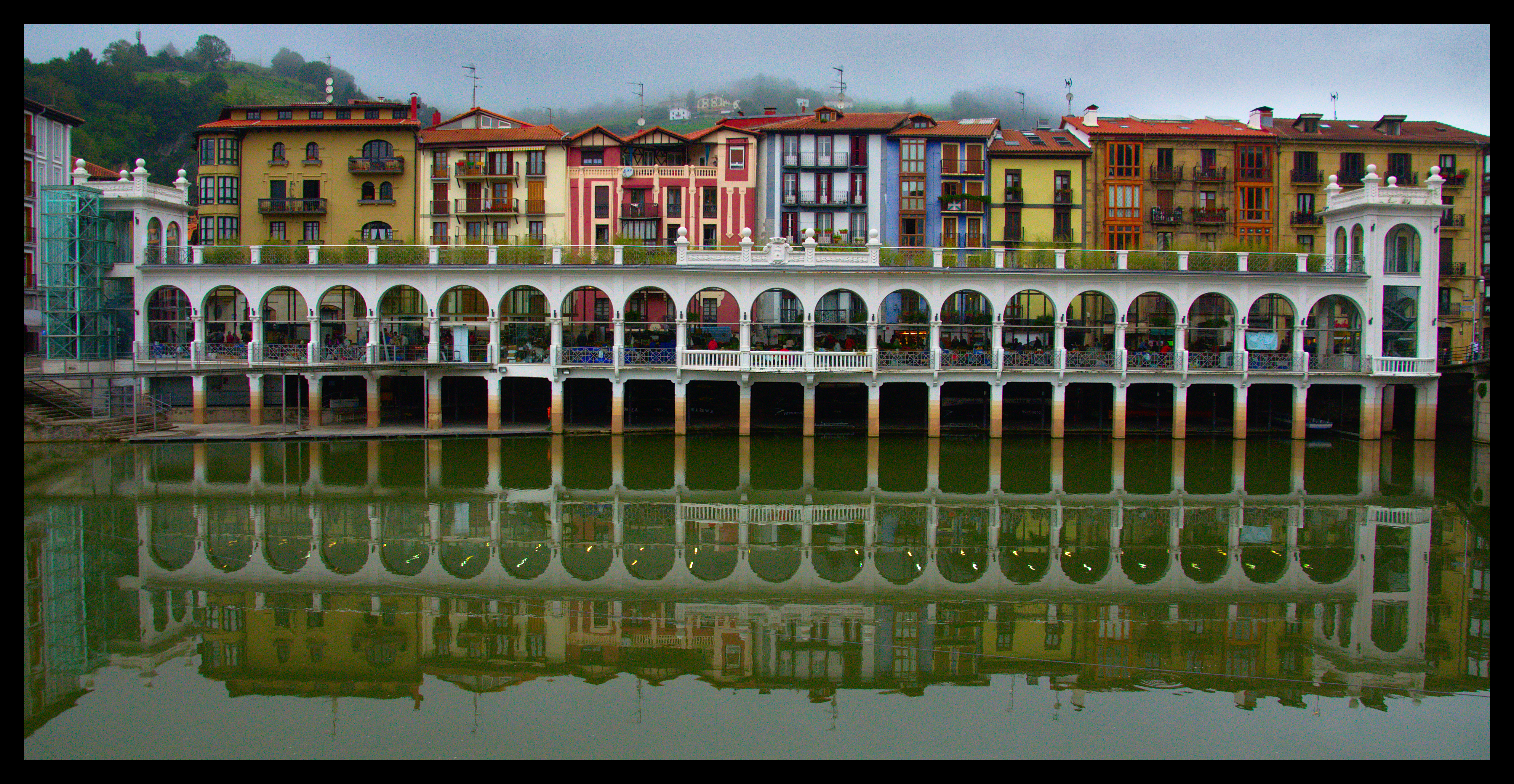 Zerkausia named market place in Tolosa.